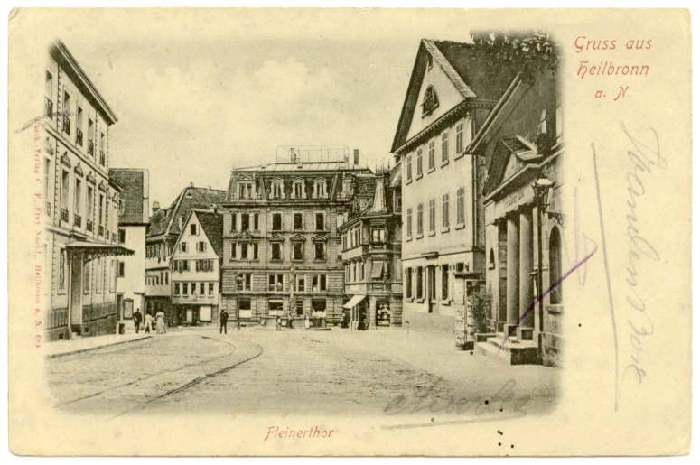 Heilbronn